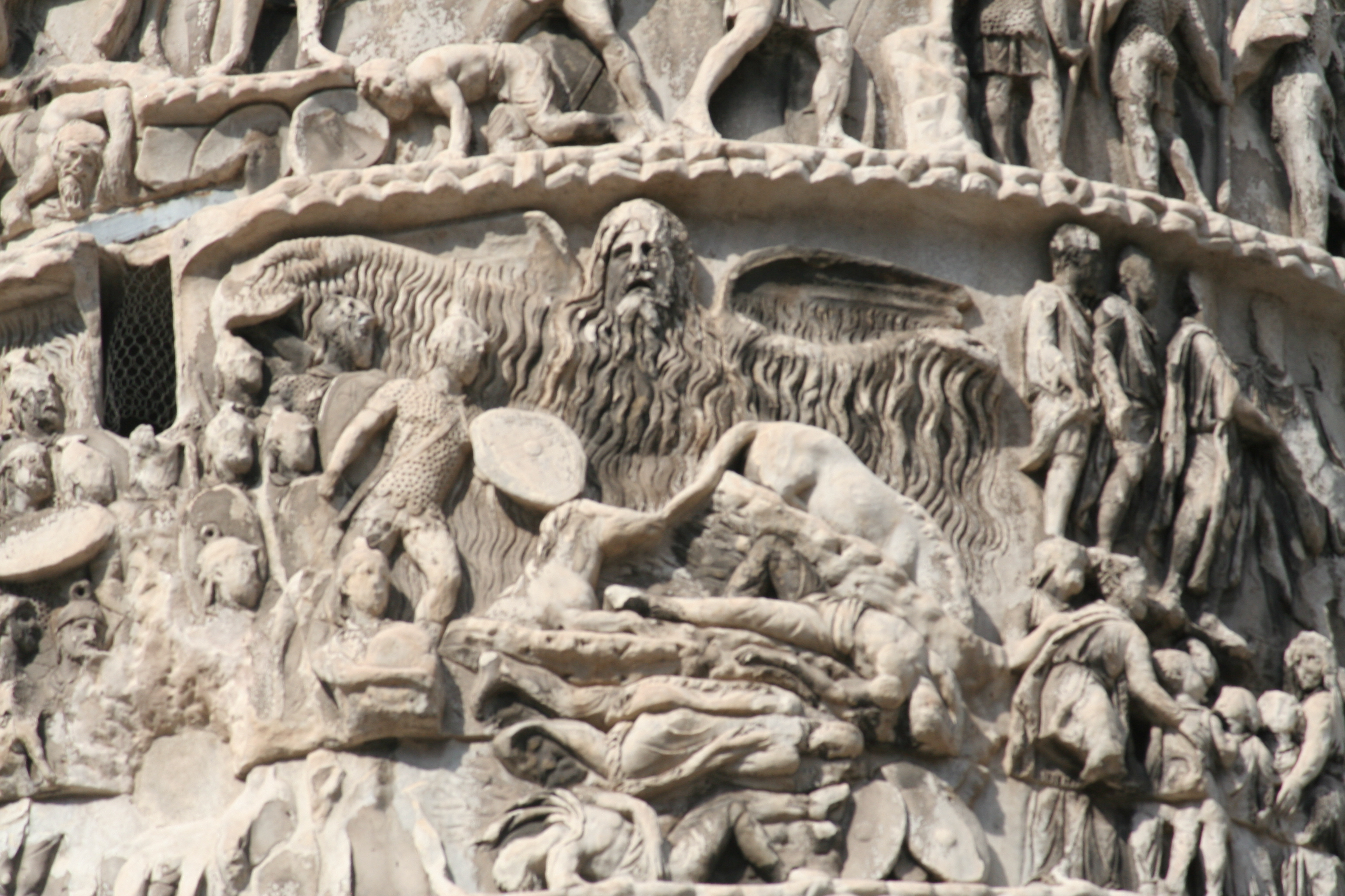 Detail from the Column of Marcus Aurelius in Rome. The event in the picture is the so-called "rain miracle in the territory of the Quadi", in which a rain god, answering a prayer from the emperor, rescues Roman troops by a terrible storm, a miracle later claimed by the Christians for the Christian God.